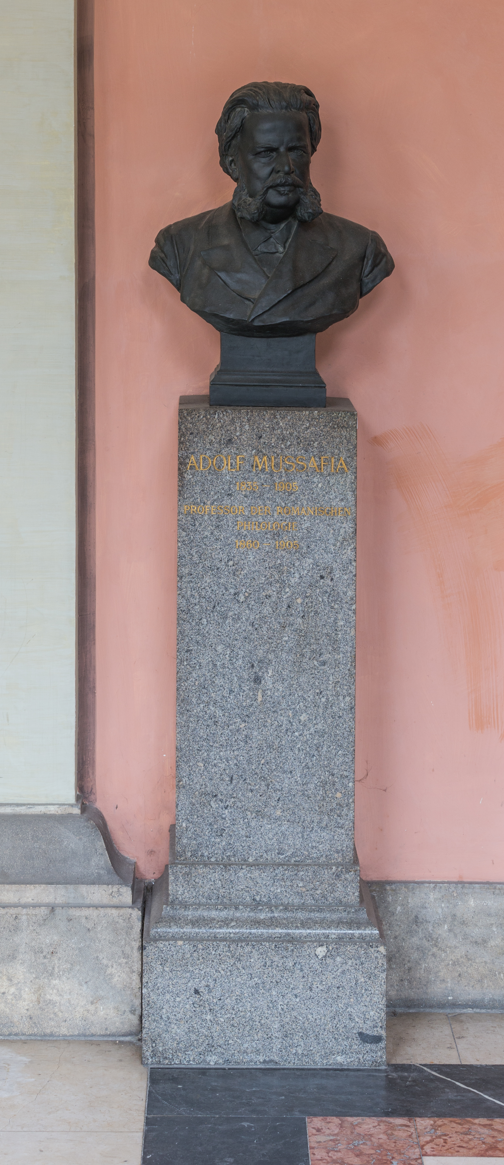 Adolf Mussafia (1865-1935), bust (bronze) in the Arkadenhof of the University of Vienna, (Maisel# 44). Artist: Kaspar Clemens Eduard Zumbusch (1830-1915), unveiled 1912 The making of this work was supported by Wikimedia Austria. For other files made with the support of Wikimedia Austria, please see the category Supported by Wikimedia Österreich.